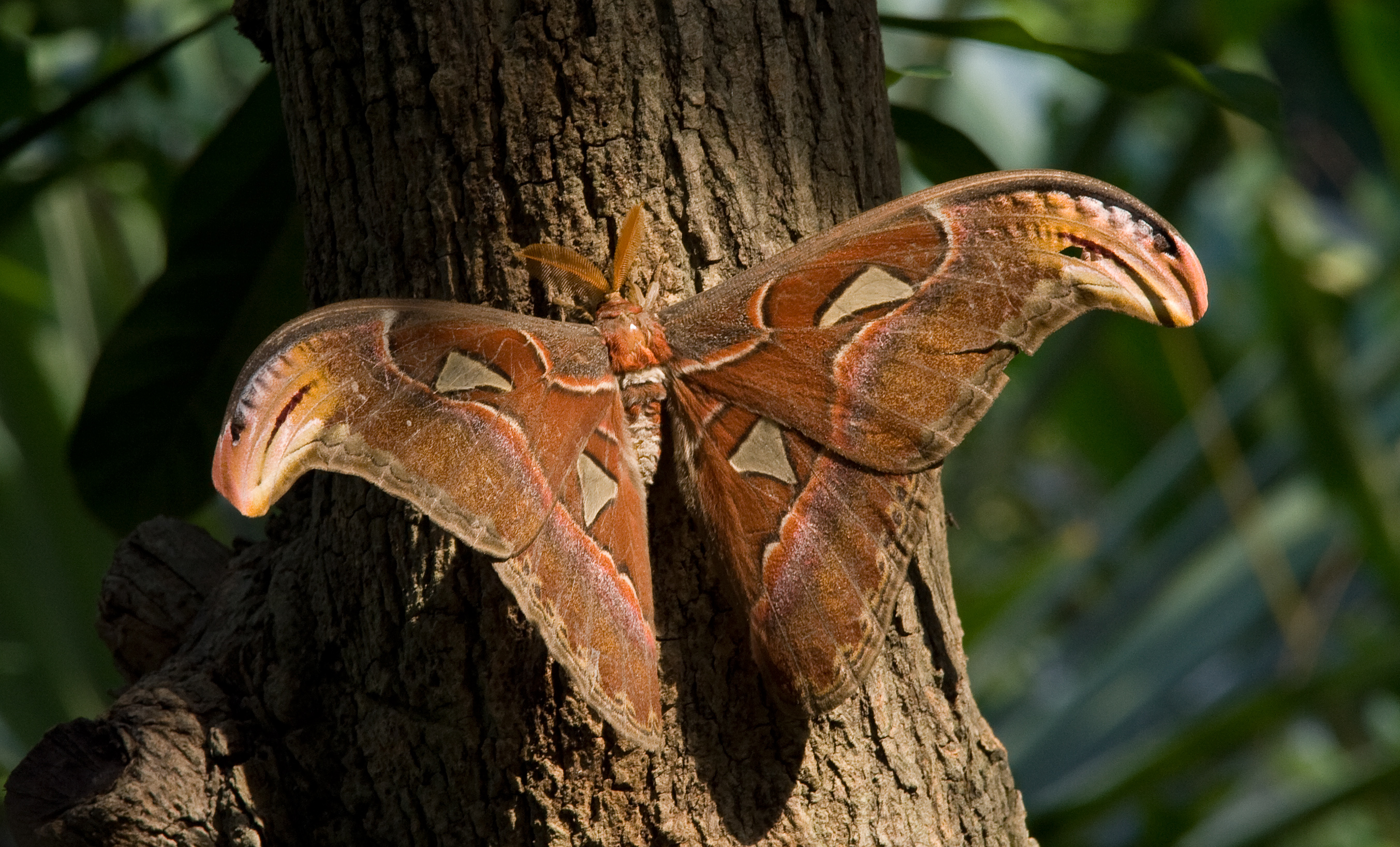 Attacus atlas